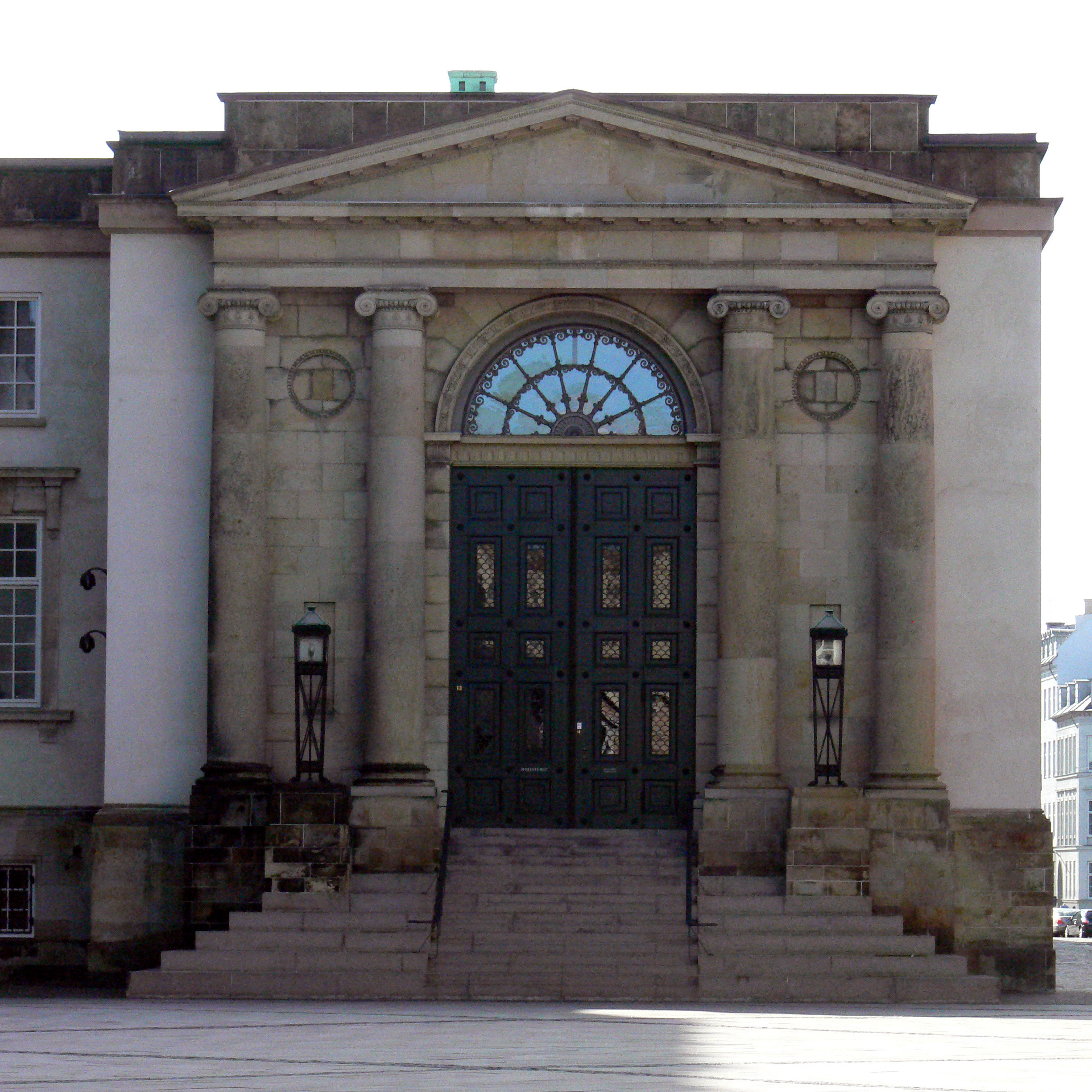 Entrance to Danish Supreme Court. Same building complex as the Danish Folketing.